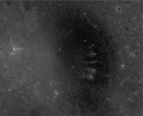 Soraya lunar crater. LROC NAC images M126941114RC and M126941114LC.